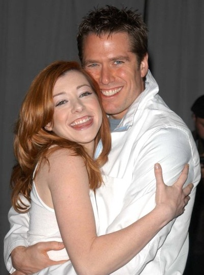 Actor Alexis Denisof and actress Alyson Hannigan at Buffy the Vampire Slayer wrap party. Cropped.